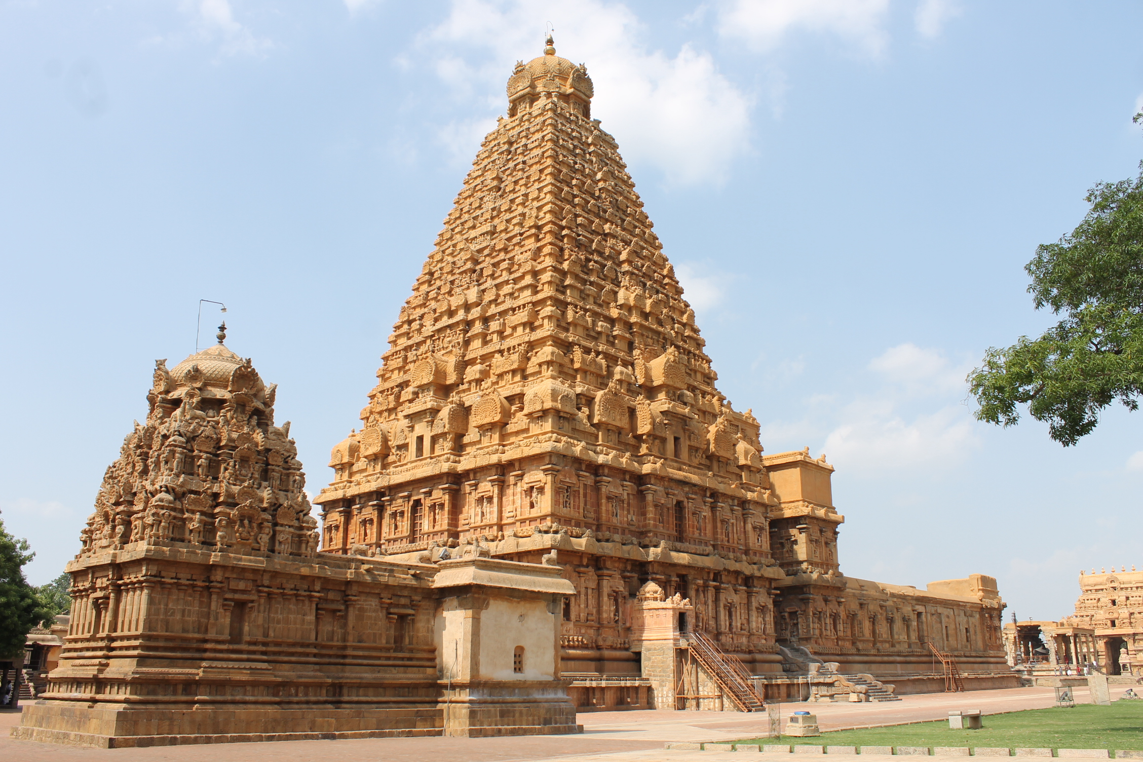 "A Side View of Brihadisvara Temple". Location: Thanjavur, Tamil Nadu, India. UNESCO declared this monument as world heritage symbol.